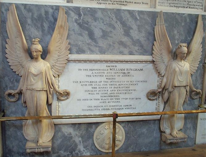 Monument to William Bingham in Bath Abbey, Somerset Copyright © 2004 Kaihsu Tai